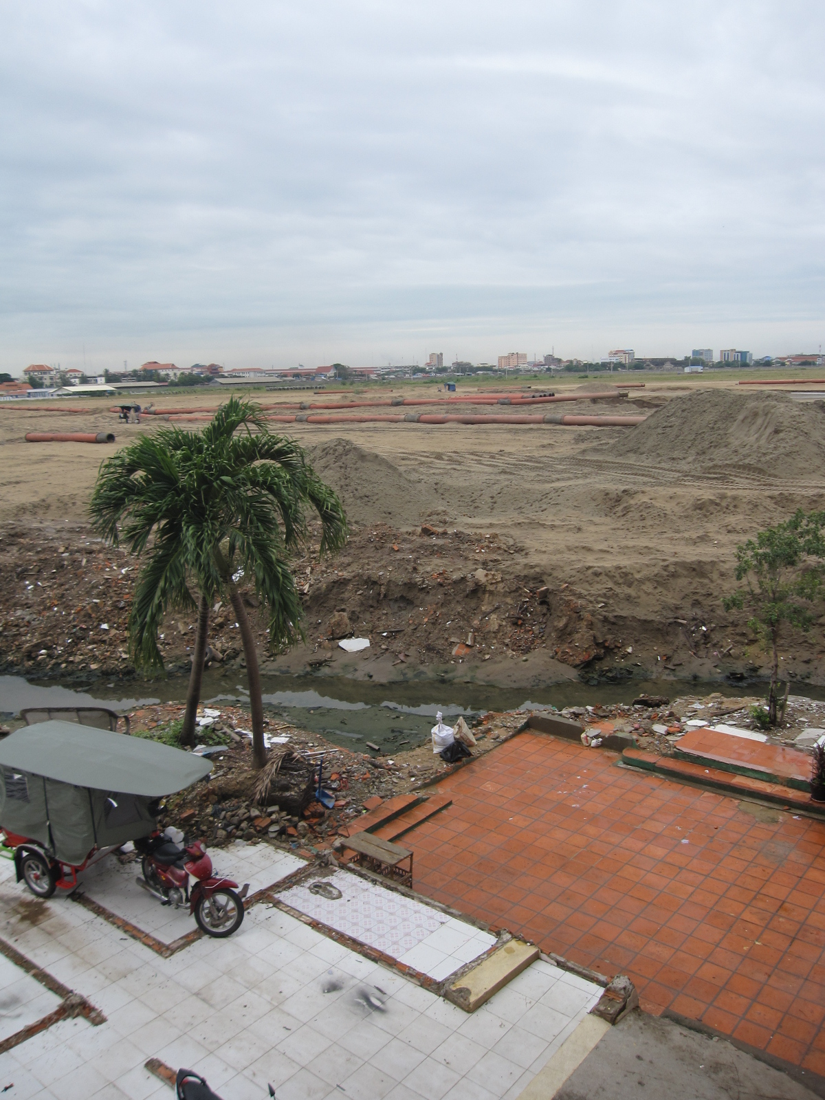 Construction work on the filled in Boeung Kak Lake, Phnom Pehn, Cambodia. A demolished guesthouse is visible in front of the ditch.